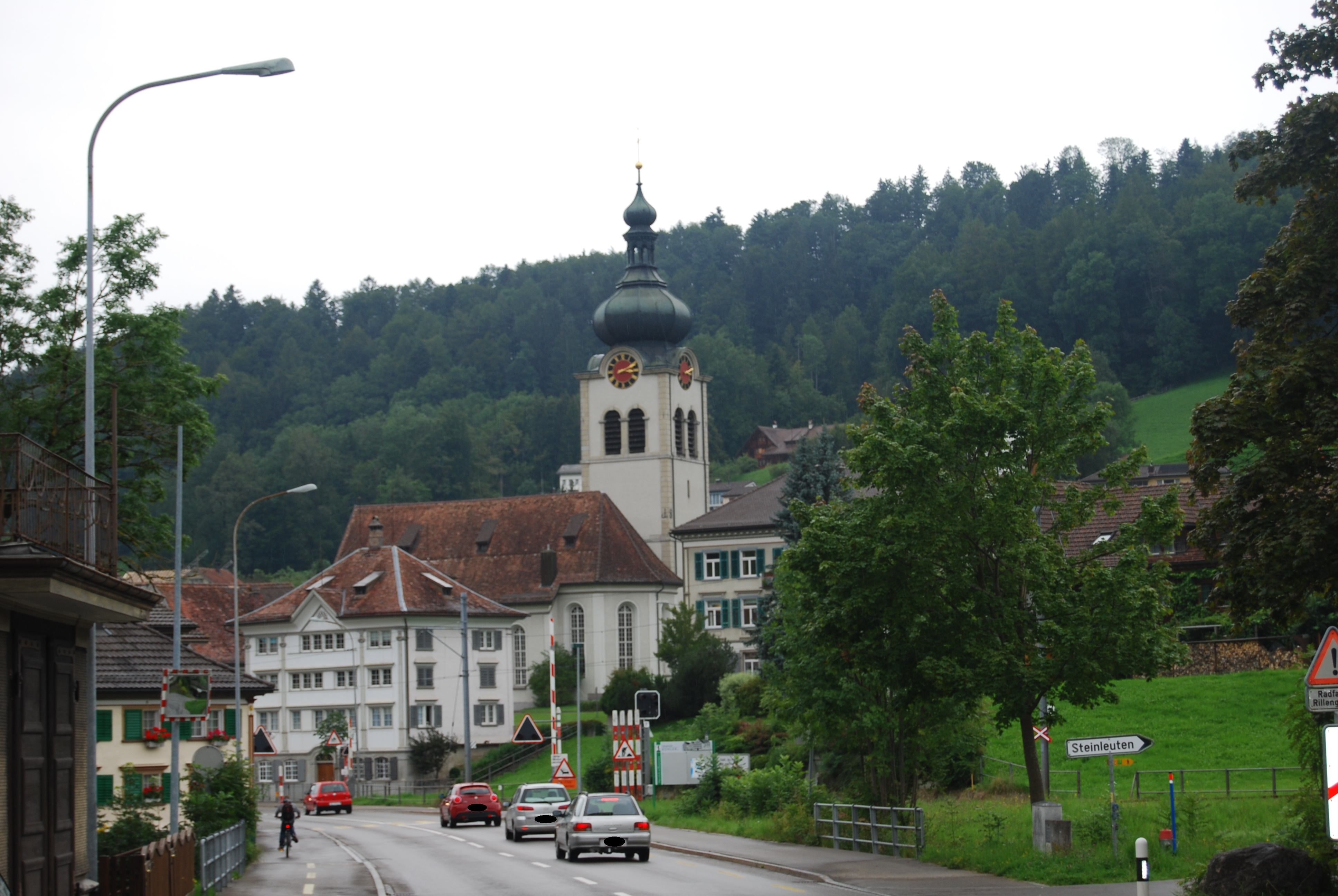 Church of Bühler, canton of Appenzell Ausserrhoden, SwitzerlandEsperanto: Preĝejo de Bühler, Kantono Apencelo Ekstera, Svislando